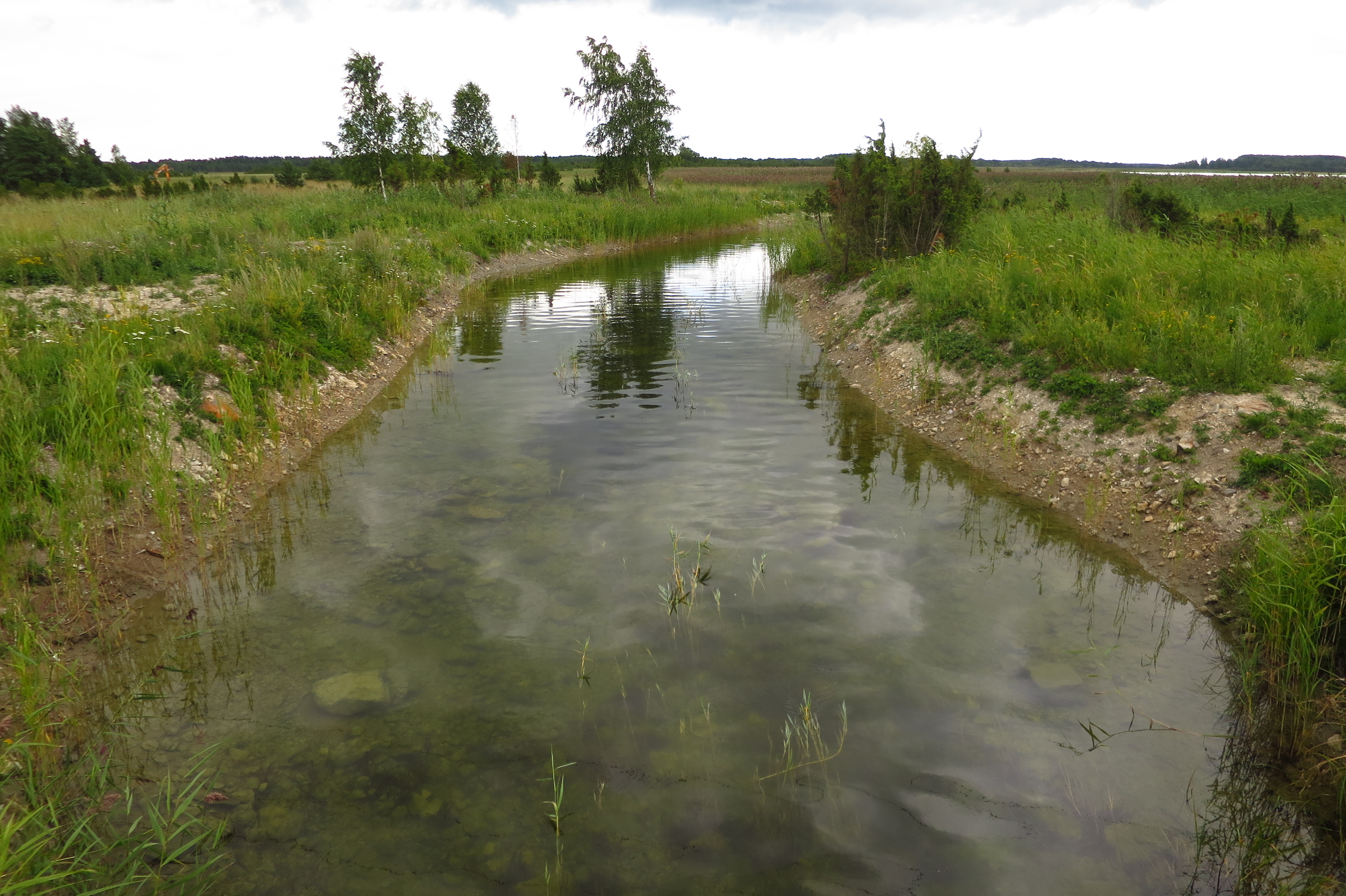 Tillunire Väikese väina kõrval